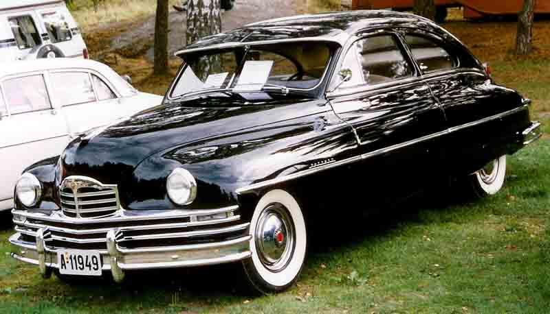 1949 Packard Eight DeLuxe model 2211 Club Sedan